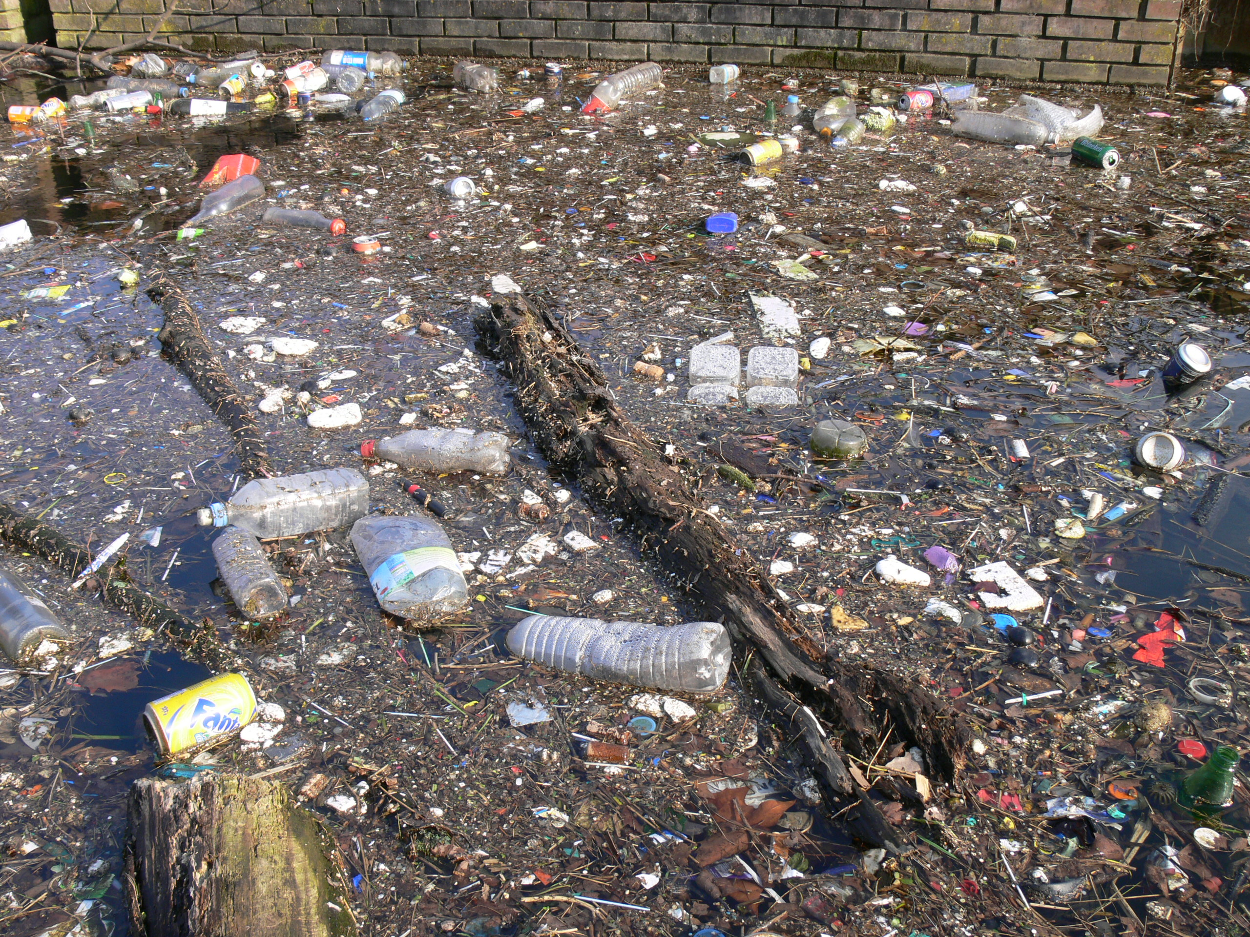 pollution on the river Deule (north of france).